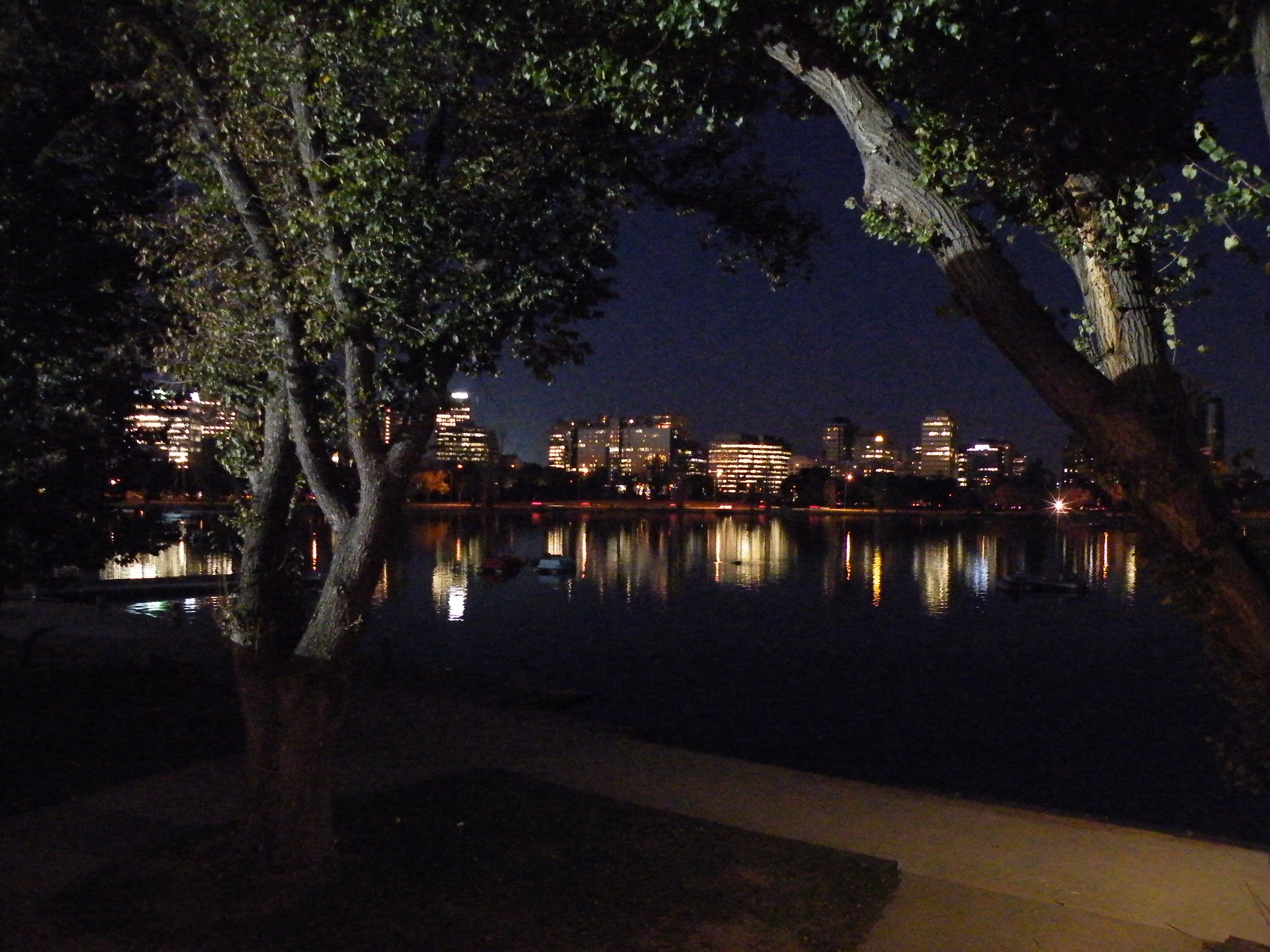 Melbourne at night from Albert Park, Victoria, Australia